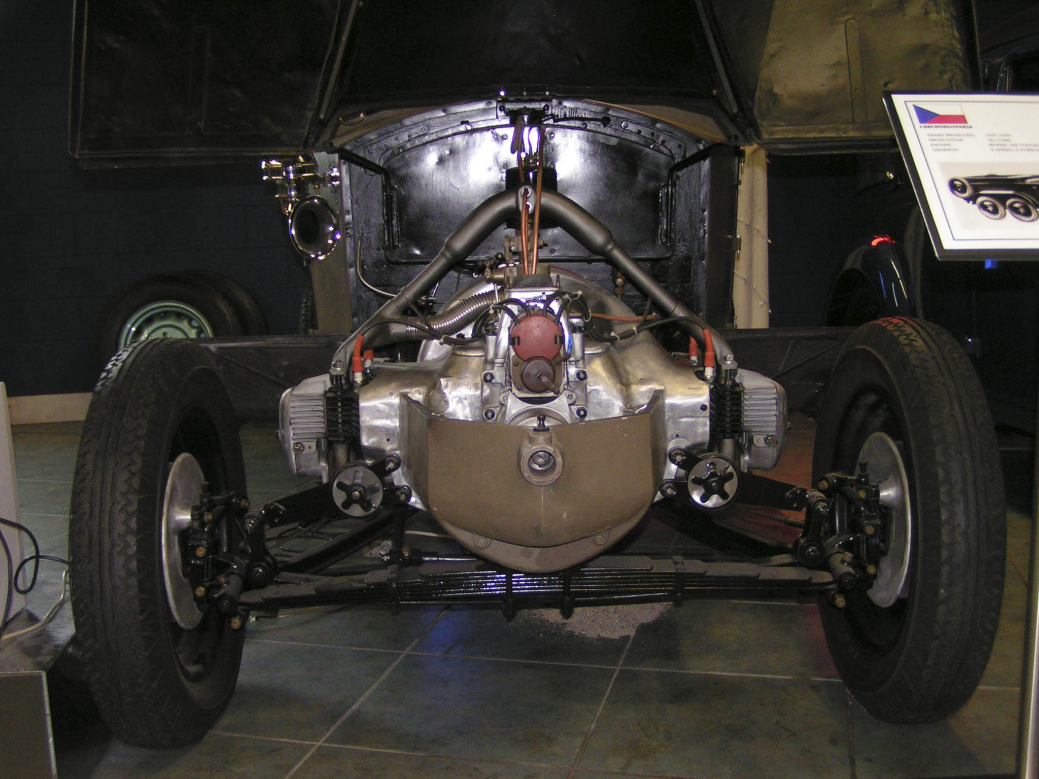 Tatra T26-30 Engine